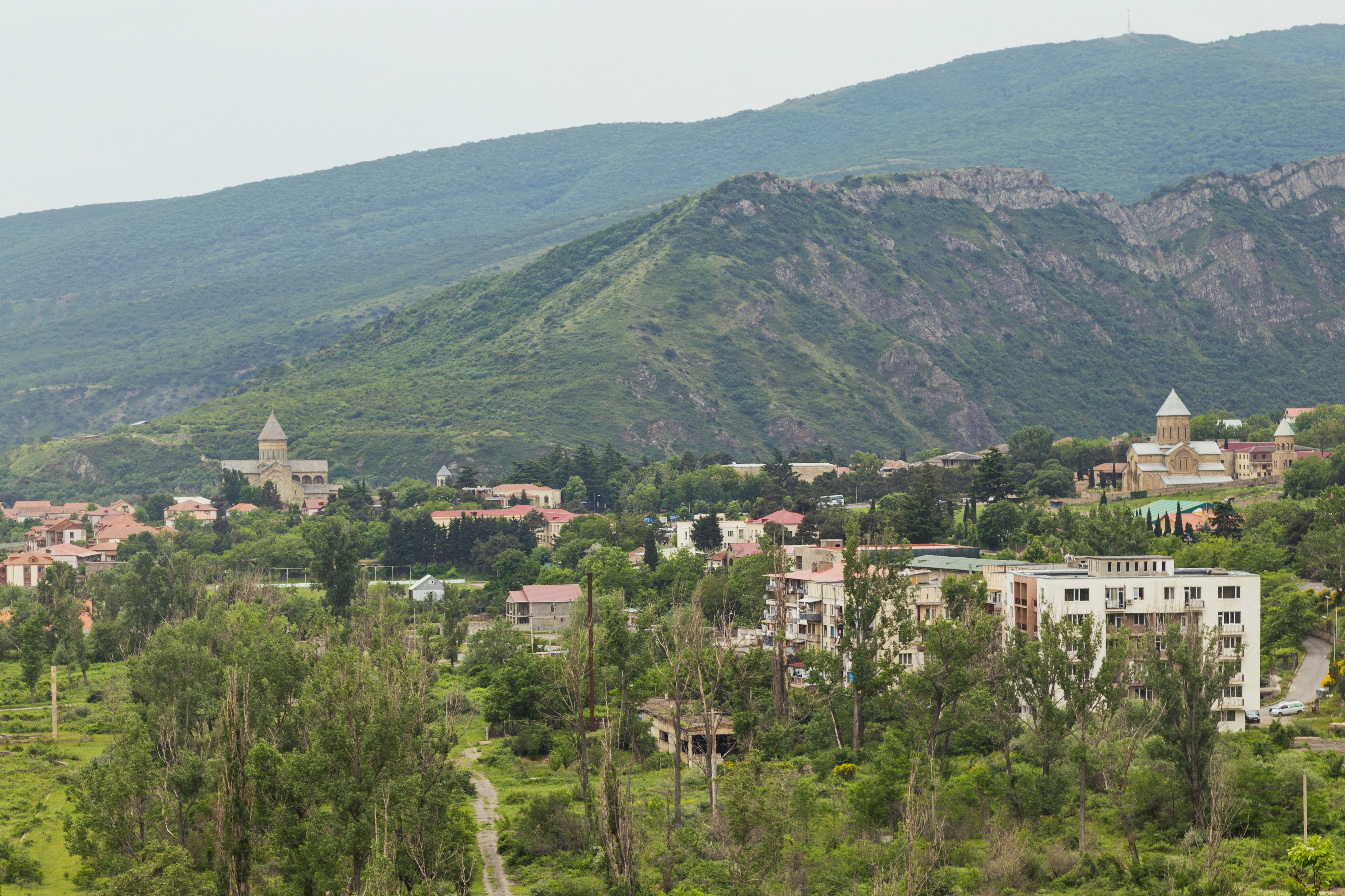 View of the city from the Bebris-Tsikhe Fortress. Mtskheta, Georgia.